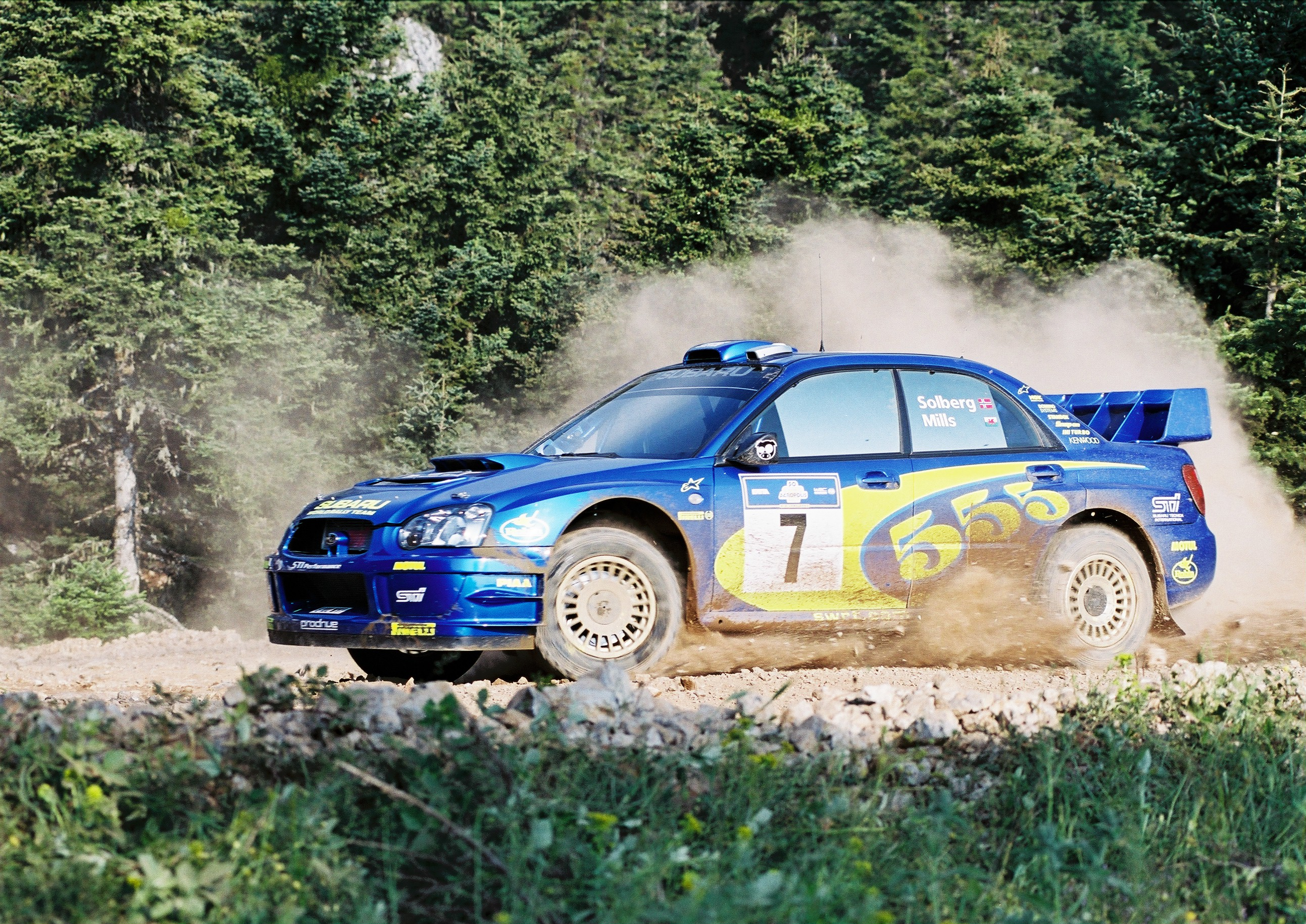 7 P. Solberg and P. Mills in 2003 Acropolis Rally (S.S. ?)